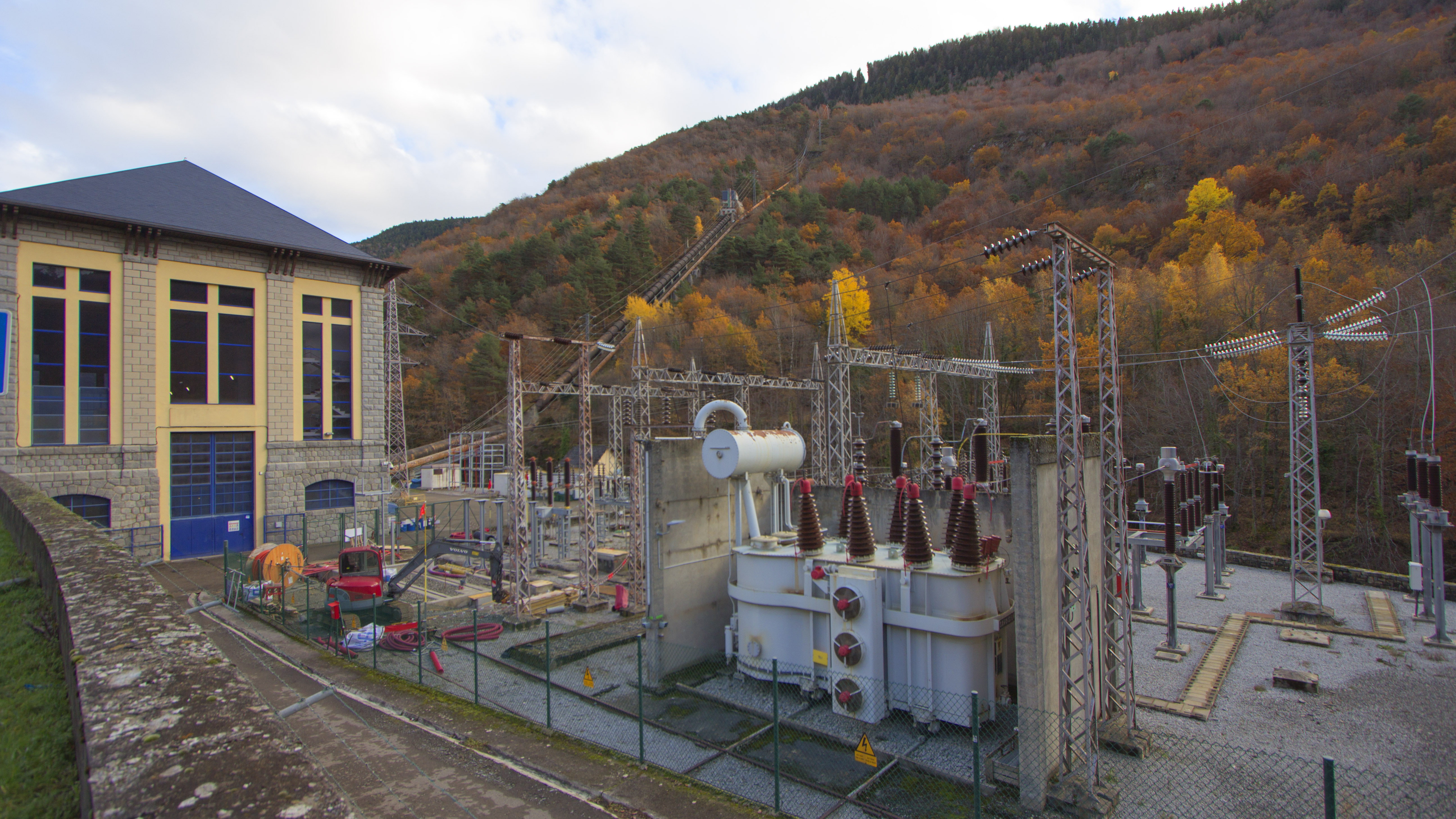 Benós hydropwer plant's electrical substation (Catalonia)